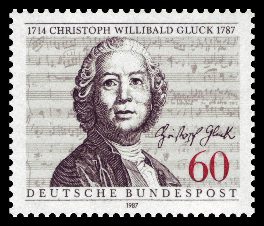 200th day of death of Christoph Willibald Gluck (1714—1787)